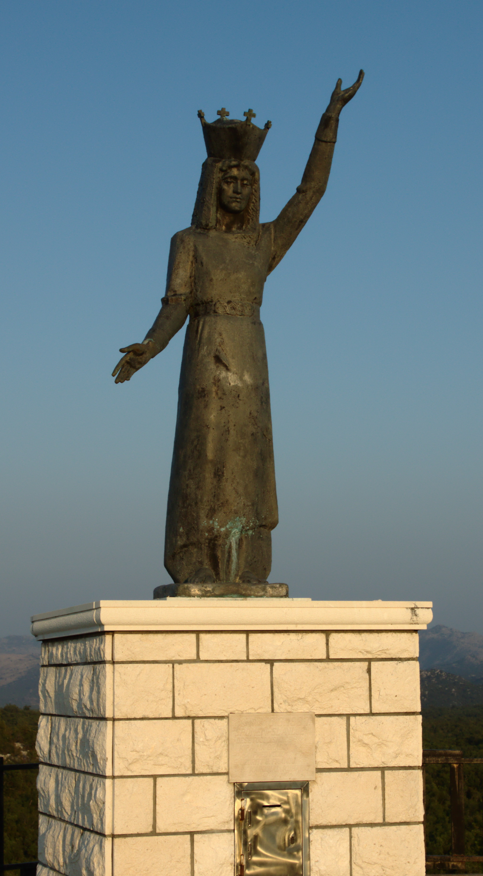 Virgin Mary the Queen statue in Cerovica, BiH